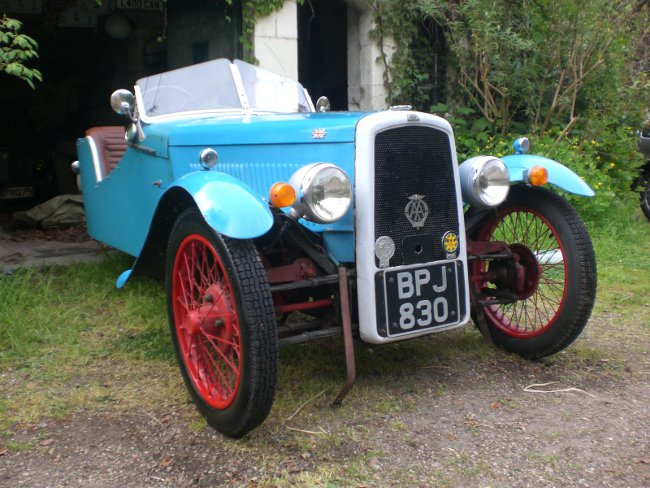 BSA three wheeler cyclecar 1934